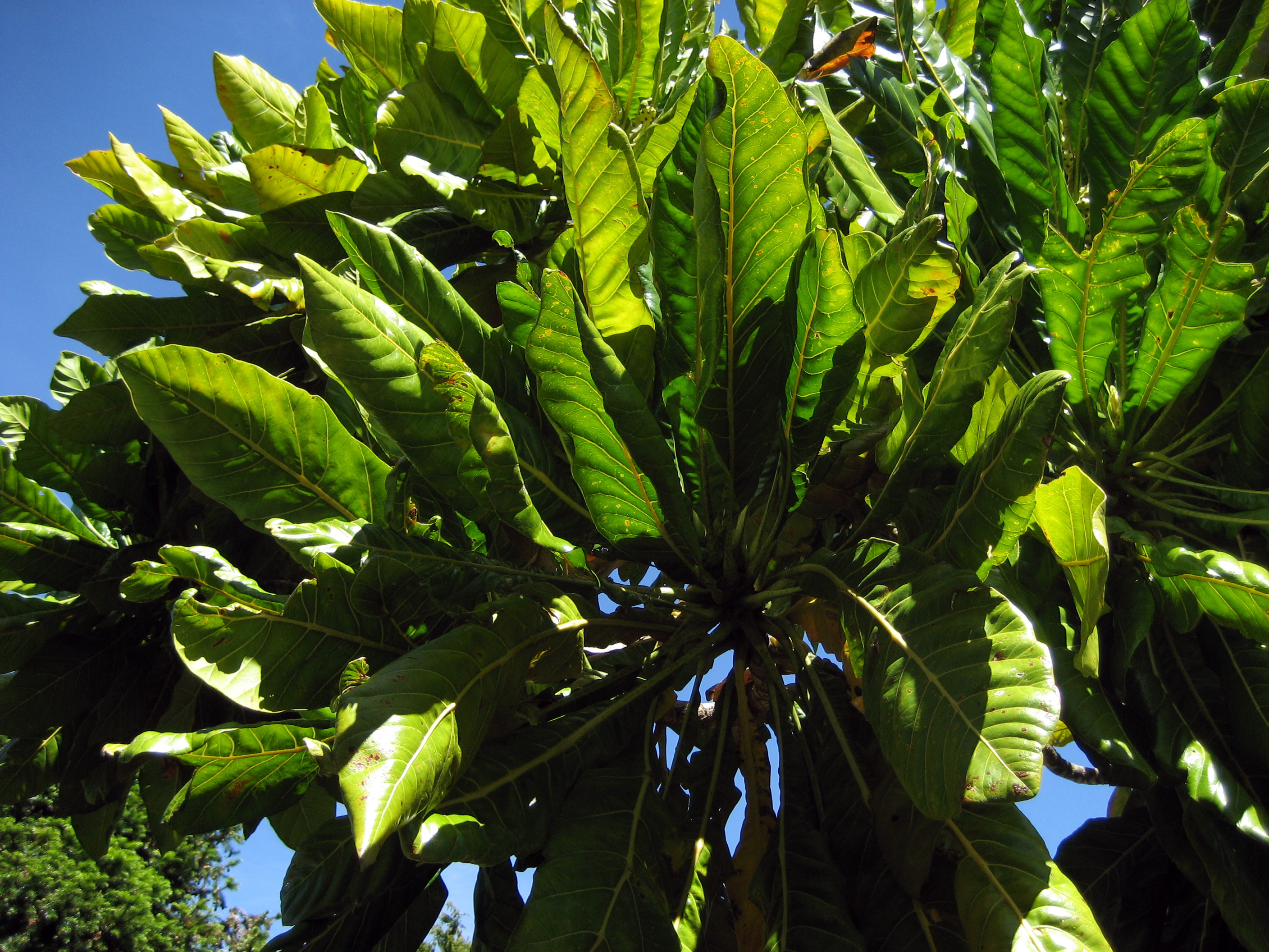 Foliage of Meryta denhamii, from a tree growing in cultivation at Manukau City, New Zealand